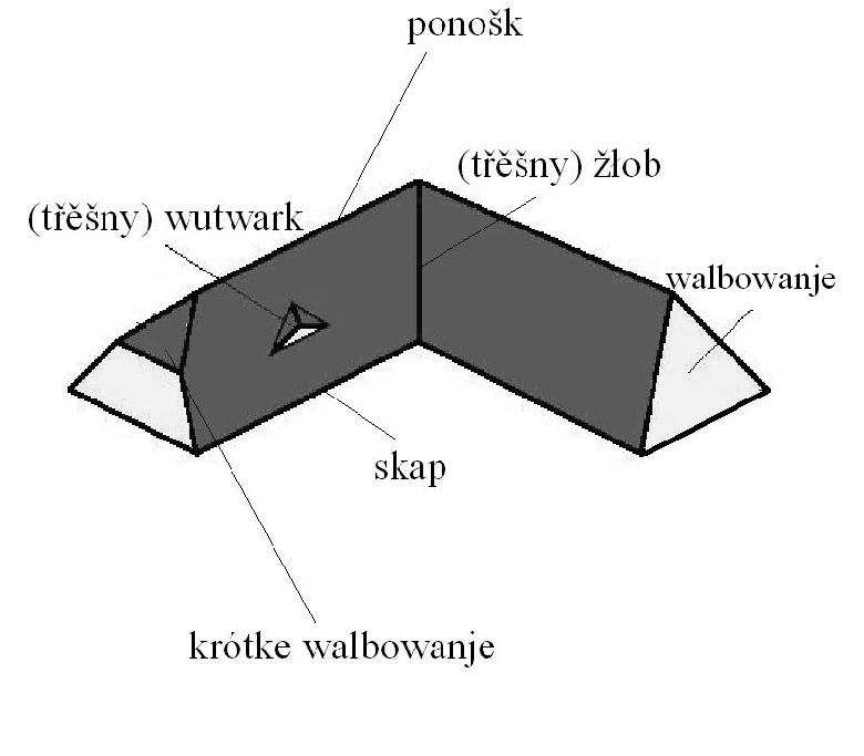 Roof